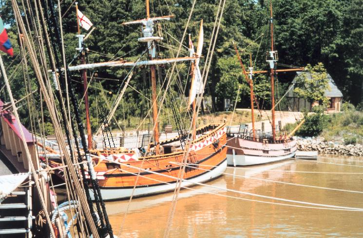 Reconstructed ships at the Jamestown settlement site along the James River in Virginia. Source URL (U.S. Federal Government NOAA photo): (reduced/edited). The original photograph was copied and edited to remove 20 people from the ships and walkways.